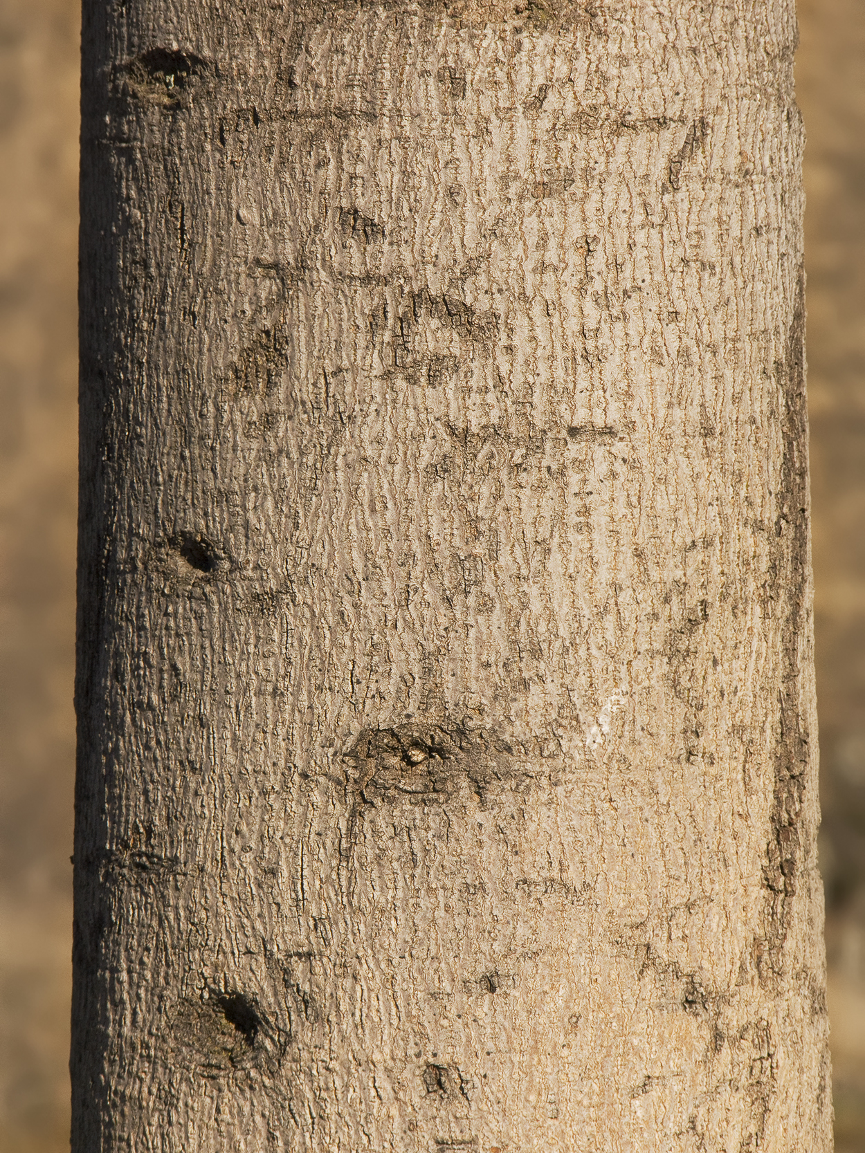 Currajong, Brachychiton populneus, Bark detail